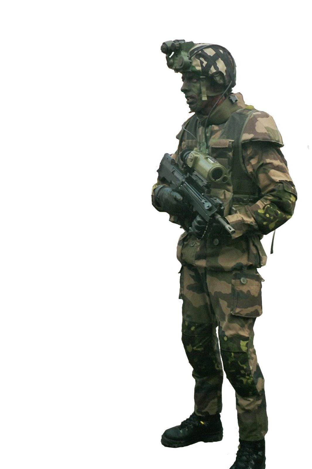 Nation/Defense days, Esplanade des Invalides, Paris, France, September 24-25, 2005